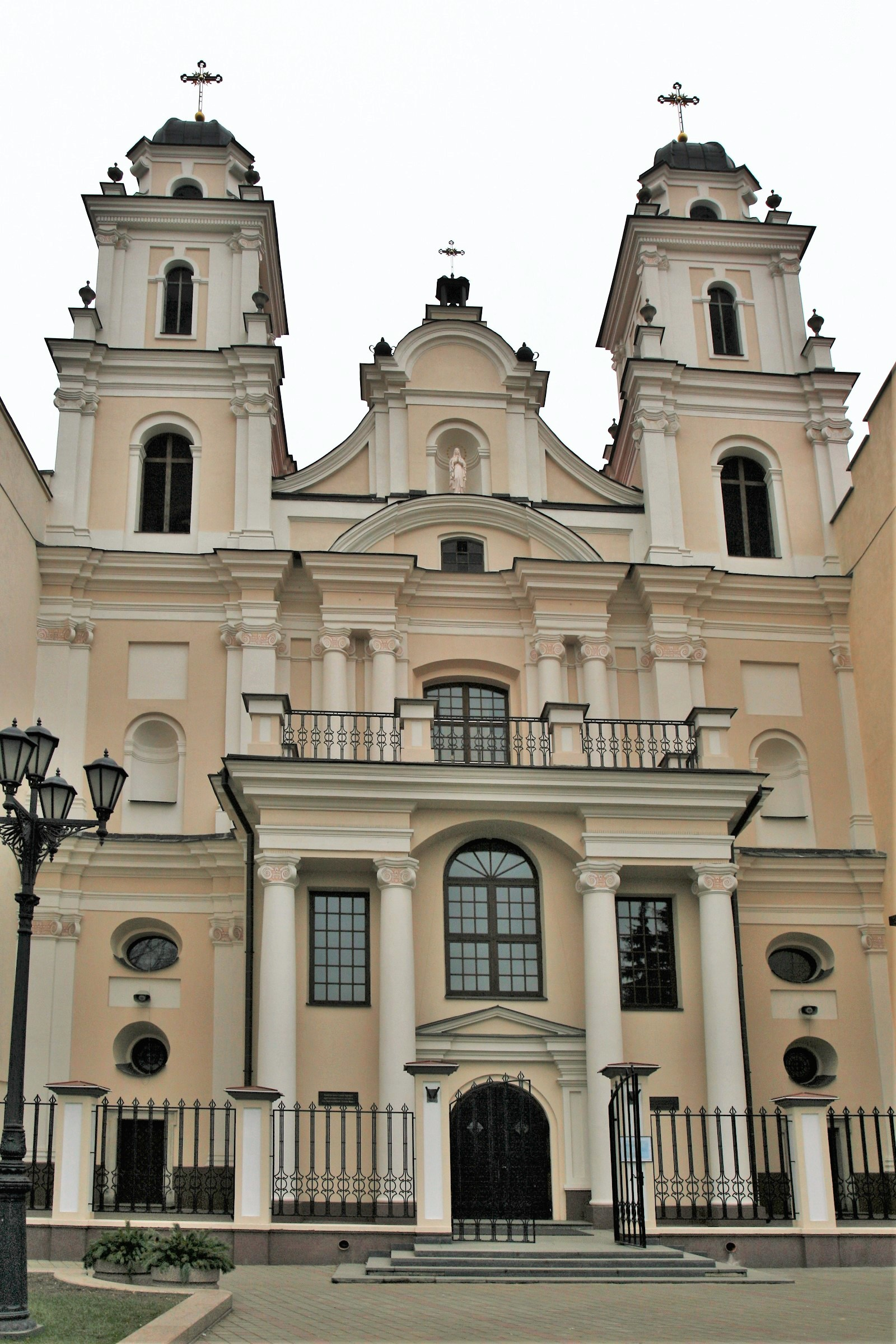 Archcathedral of Name of the Blessed Virgin Mary, Minsk, Belarus